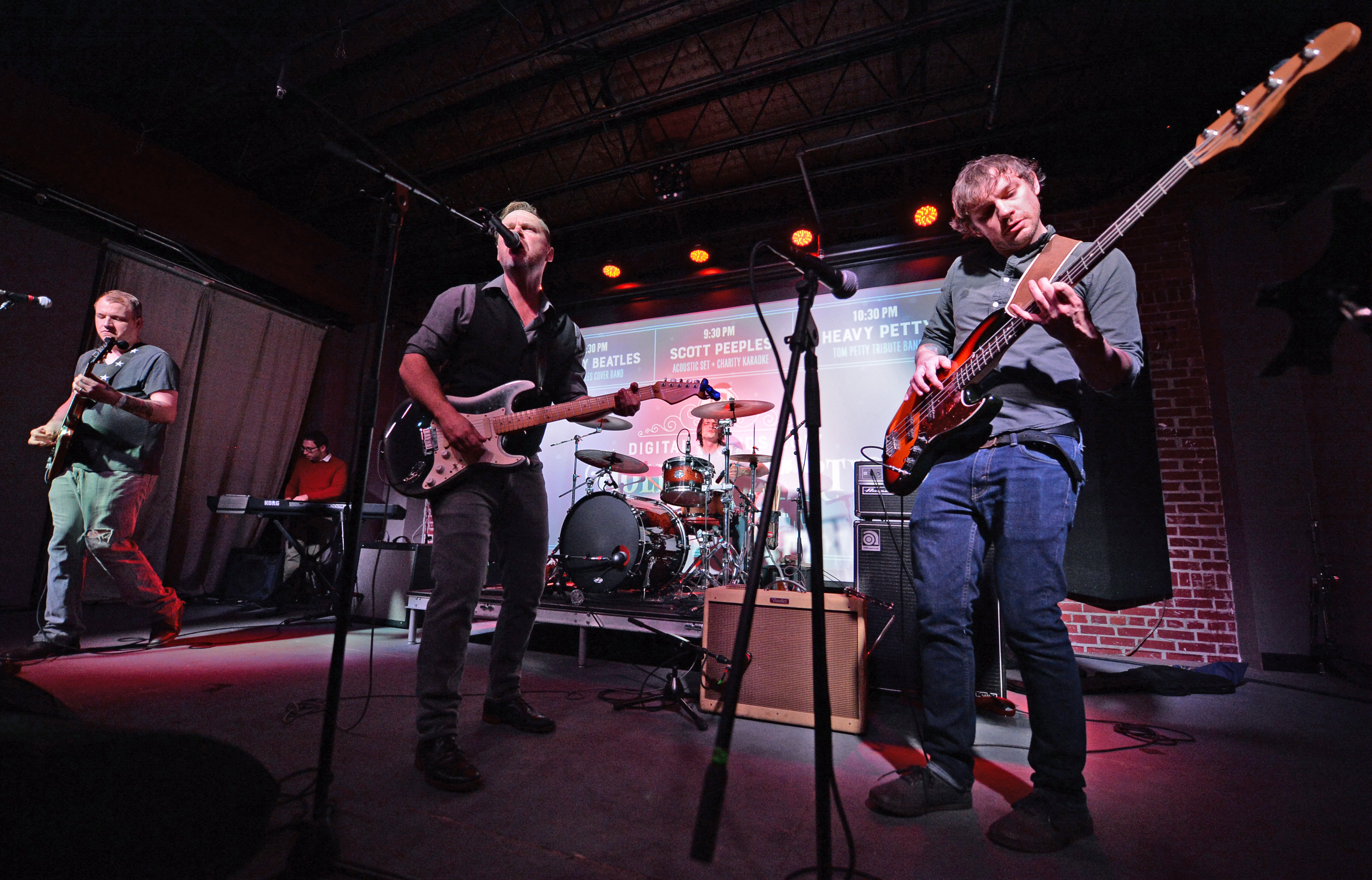 Gainesville, Florida, band, Heavy Petty, 2017, at The Wooly for the Digital Brands 2017 holiday party. Attribution for this image must go to Steven H. Keys and